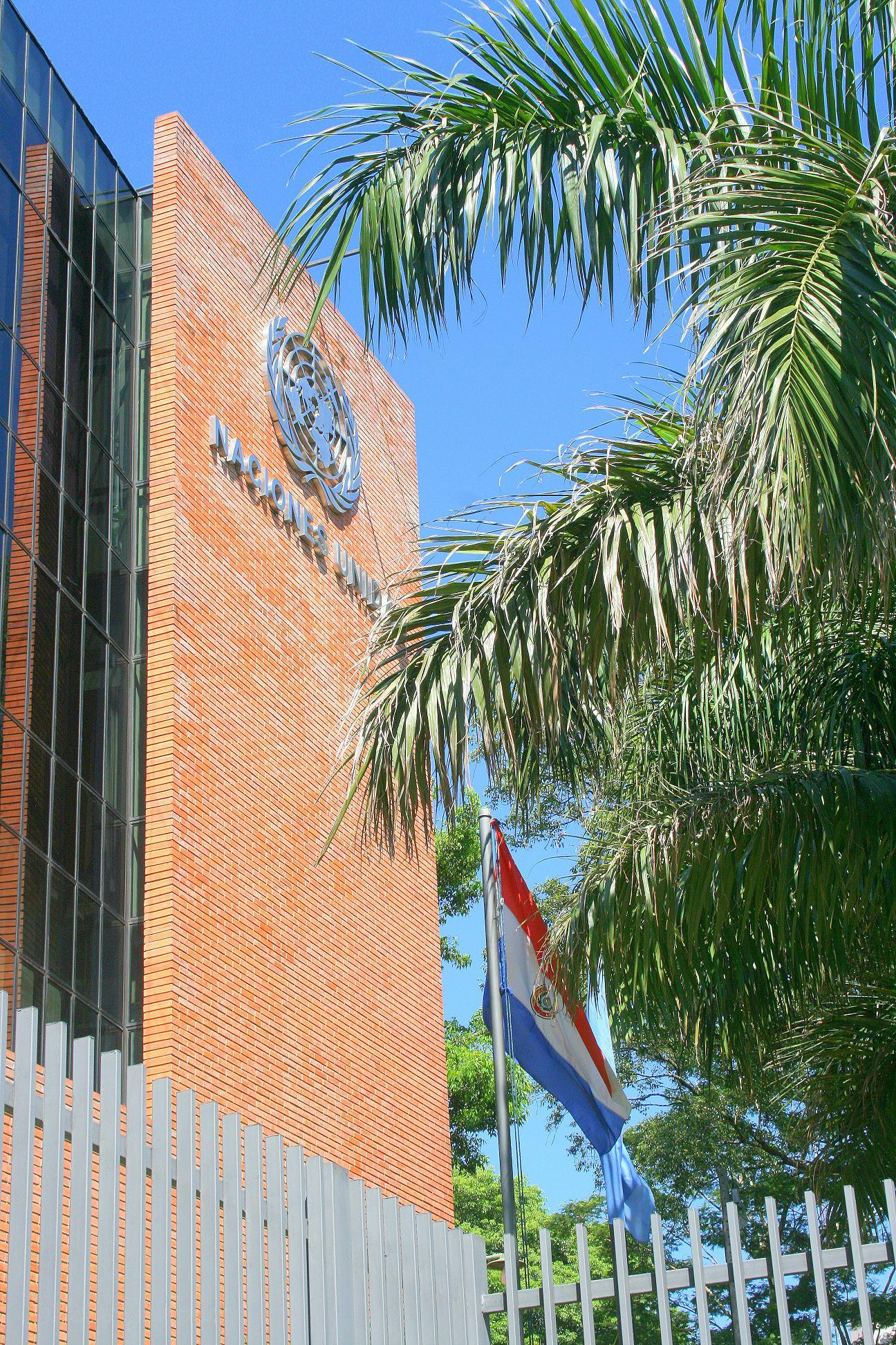 United Nations Building in Asuncion, Paraguay